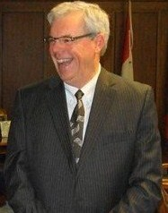 Greg Selinger, NDP Premier